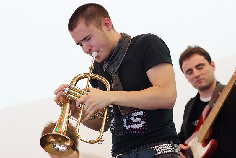 Musicians Andy Davies & Lorenzo Bassignani